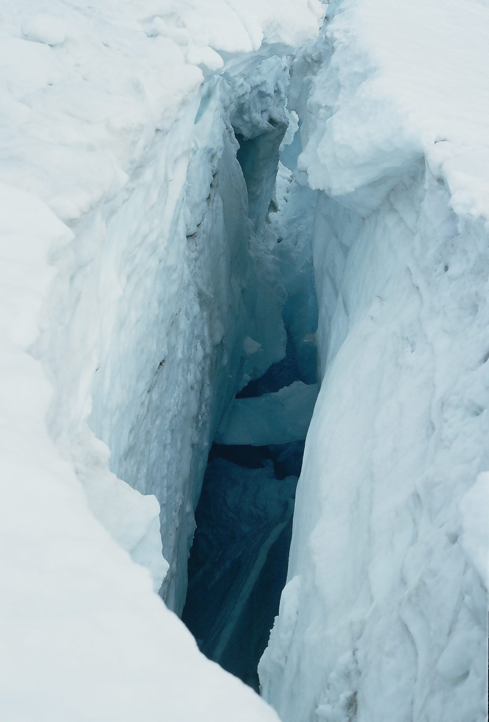 Crevasse, Tré-la-Tête glacier, Mont-Blanc massif, France.